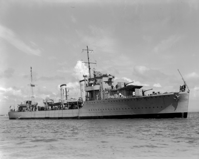 Argentine destroyer ARA Corrientes (E-8)